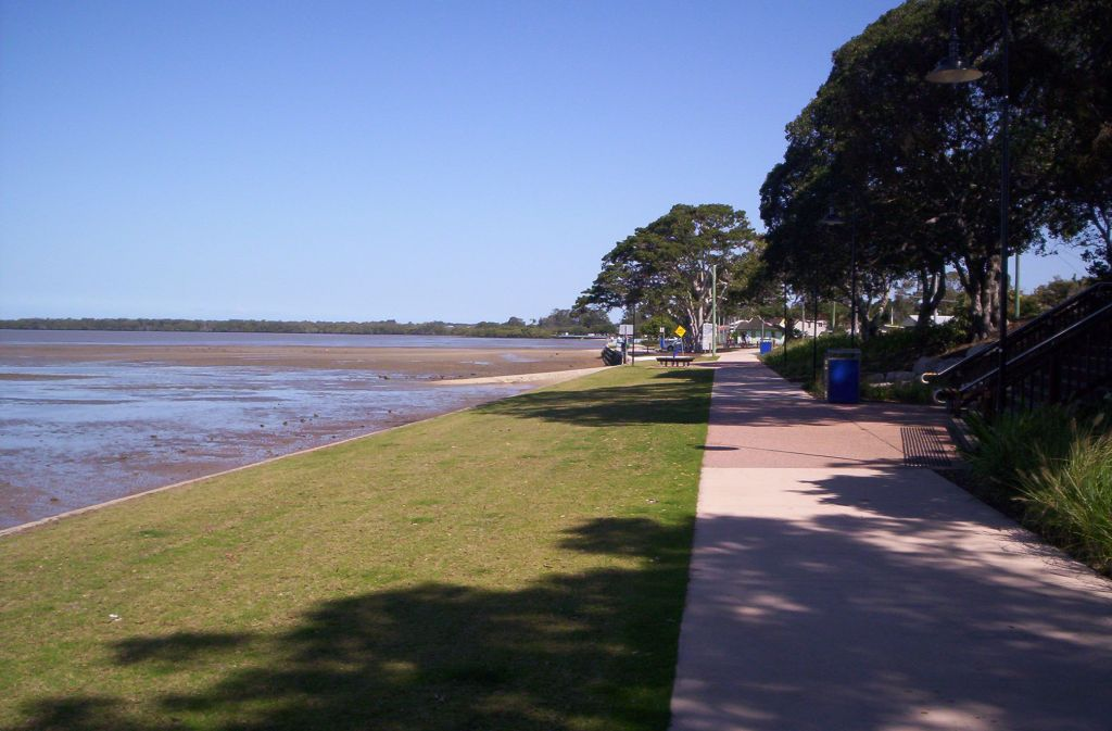 Photo taken in Deception Bay.